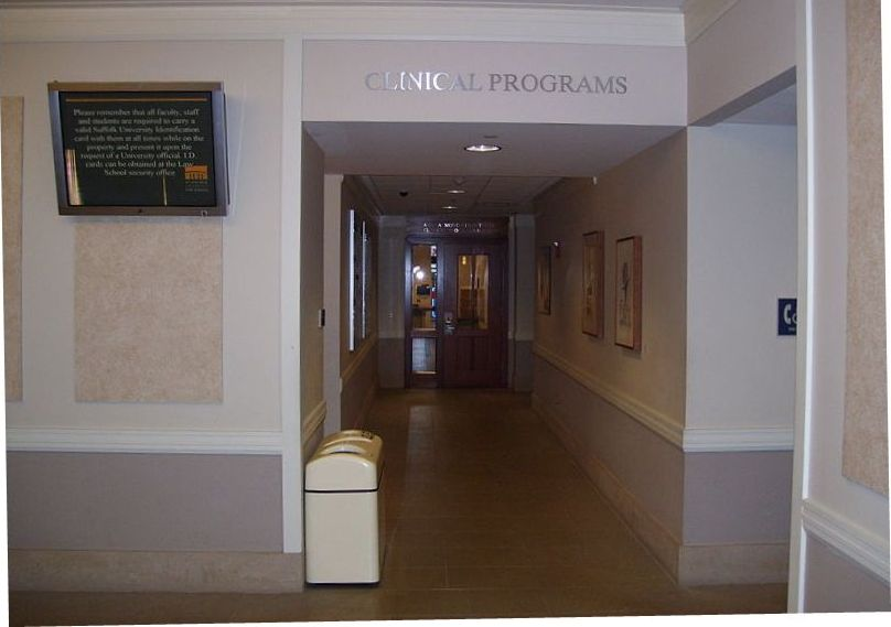 This is my 2008 photo of the Suffolk University Law School legal clinic suite.